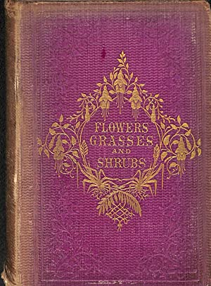 Mary Pirie book. Mary Pirie (20 January 1822 - 8 February 1885) was a Scottish botanist and teacher.